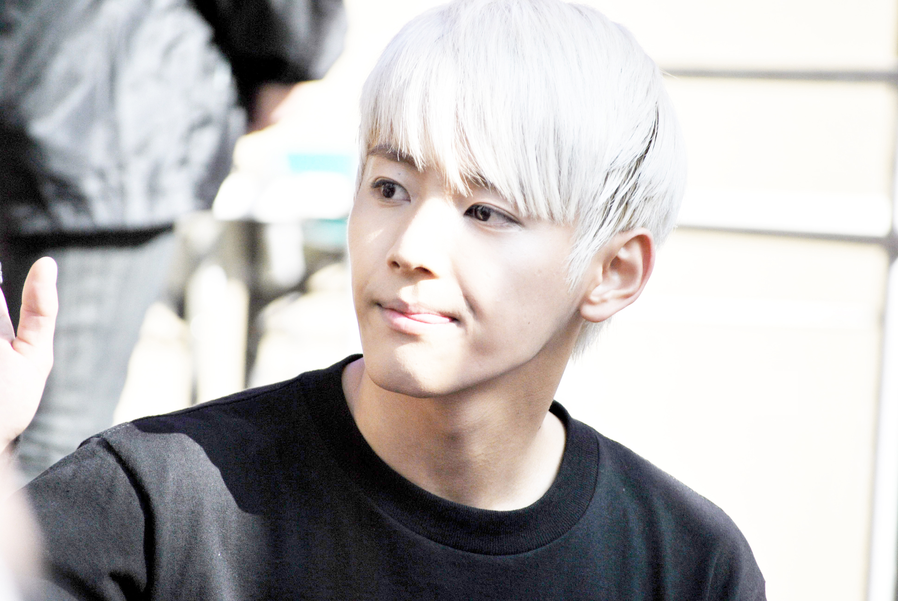 Seyong at Myname's release event for "What's Up" at LaQua in Tokyo on November 24, 2012.